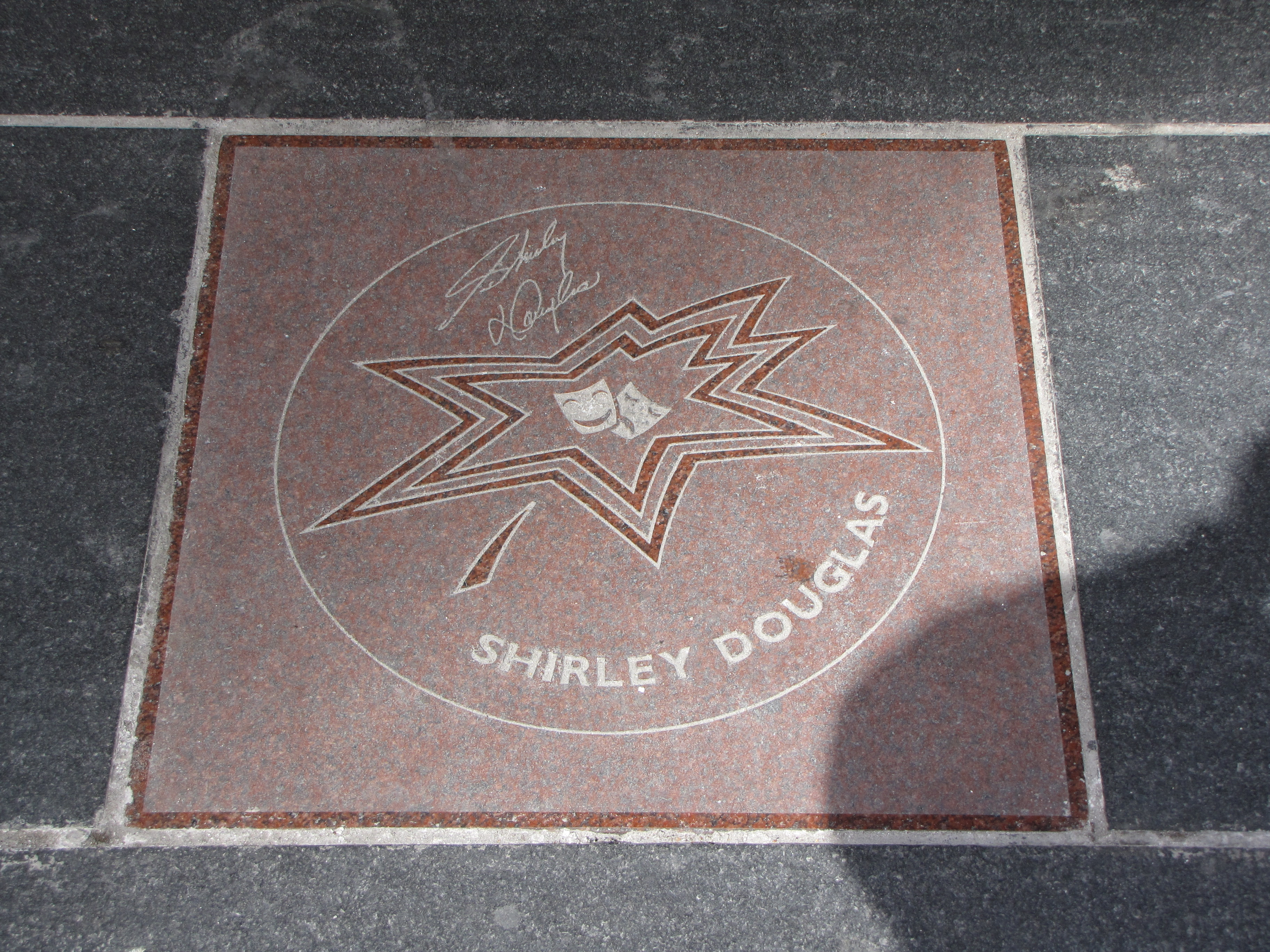 Shirley Douglas' star on Canada's Walk of Fame